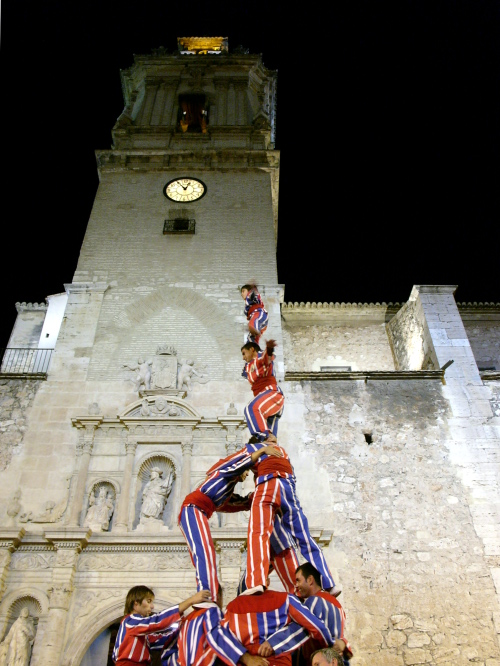 the first folk troupe in the Virgin of Salut feasts building up a muixeranga in front of Saint James church in Algemesí